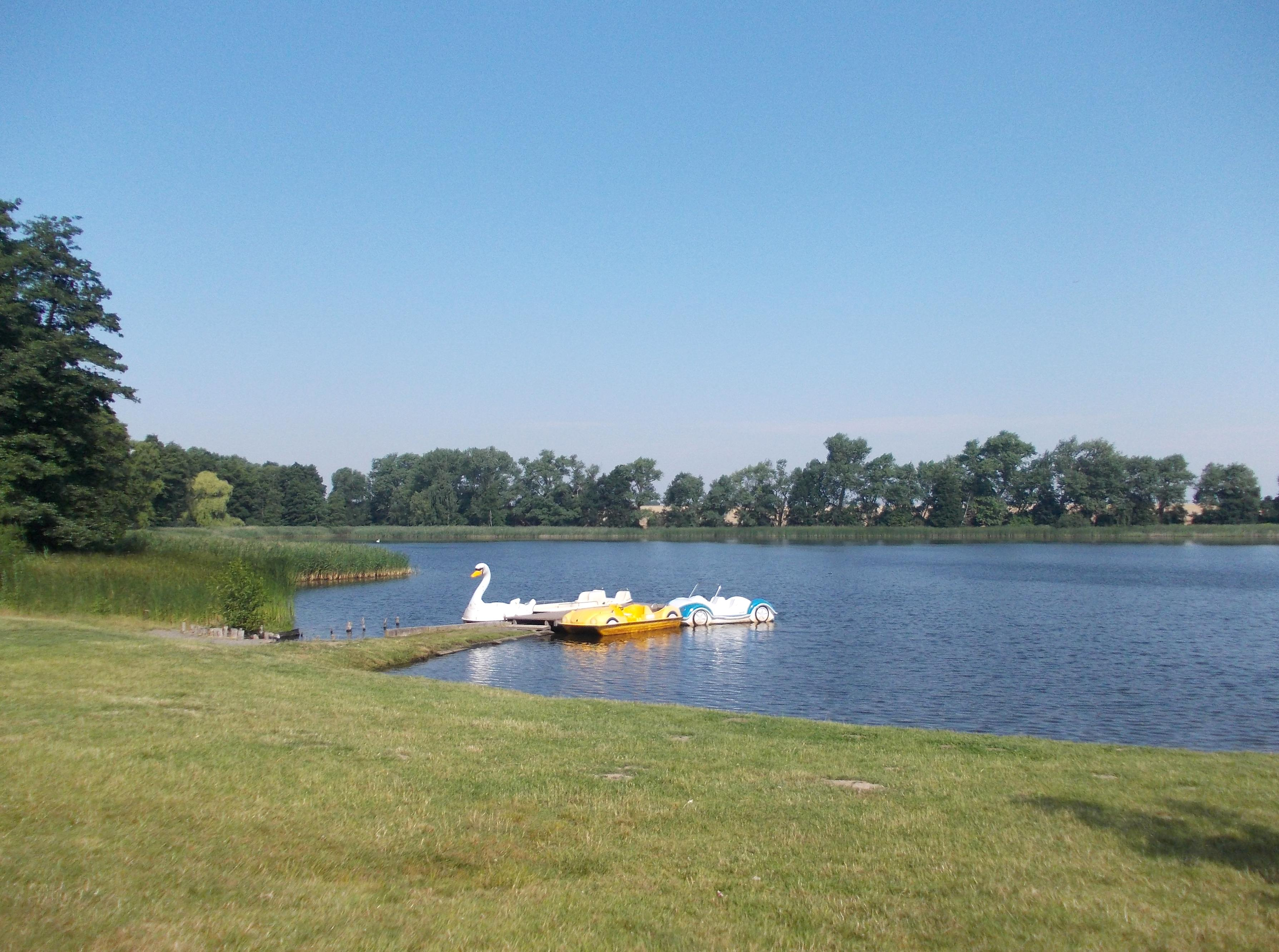 Sahlweidenteich, one of the Lübschütz Ponds (Machern, Leipzig district, Saxony)